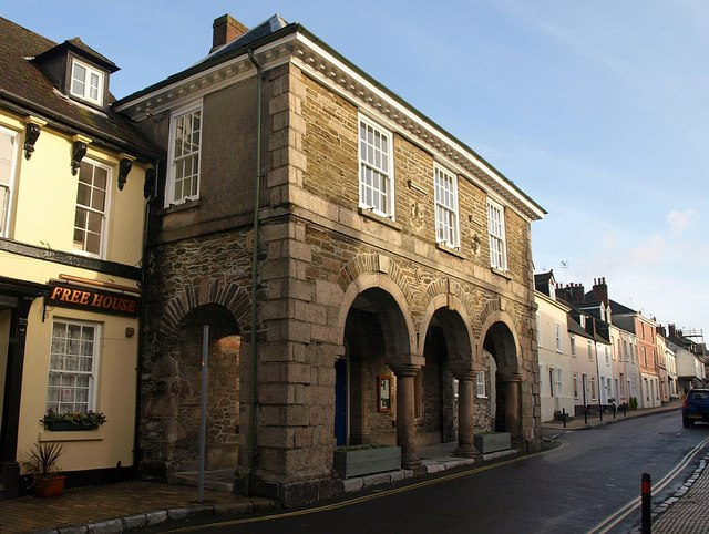 Guildhall, Plympton. Dated 1696, and built, like 1619829, for George Treby, with granite rusticated quoins and an arcade over the pavement of Fore Street . The pub to the left is the Forester's Arms.